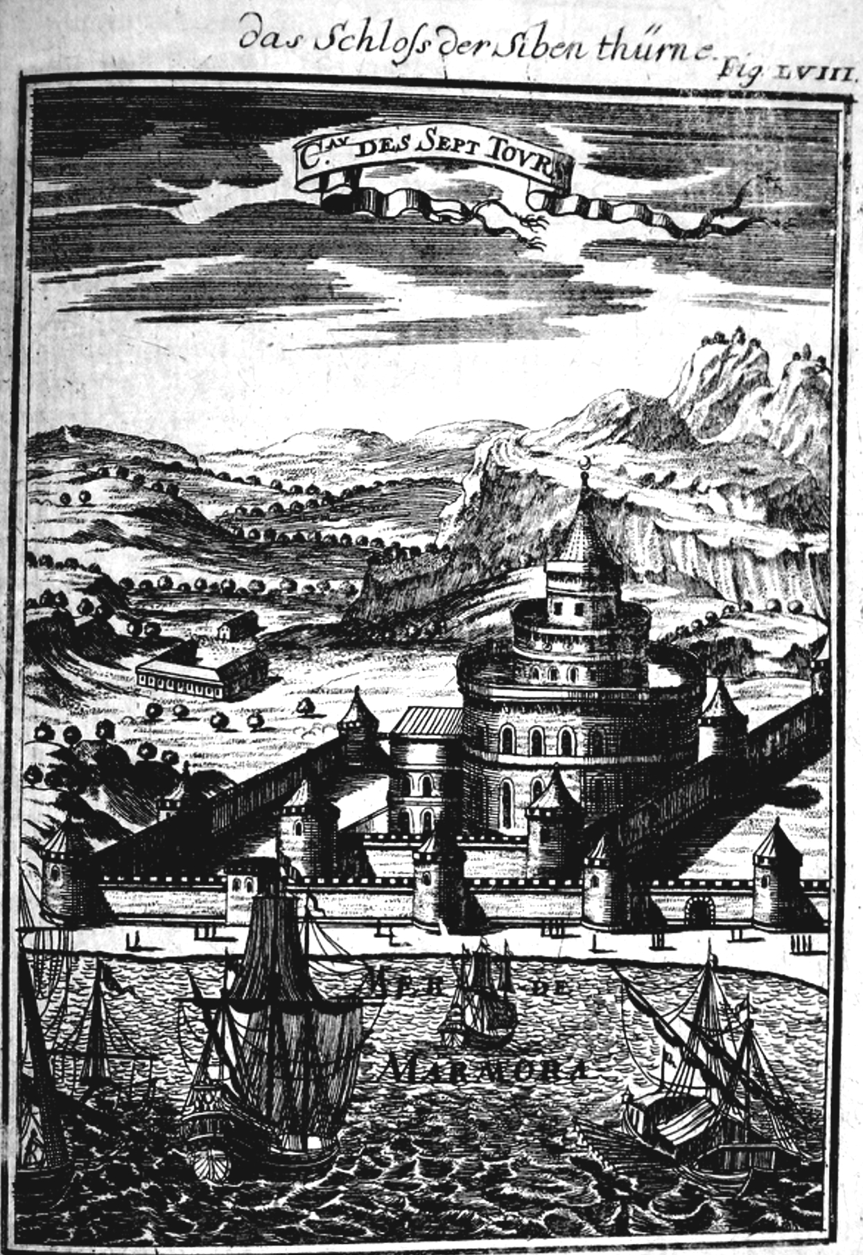 View of the Castle of Seven Towers, Description de L'Universe (Alain Manesson Mallet, 1685)